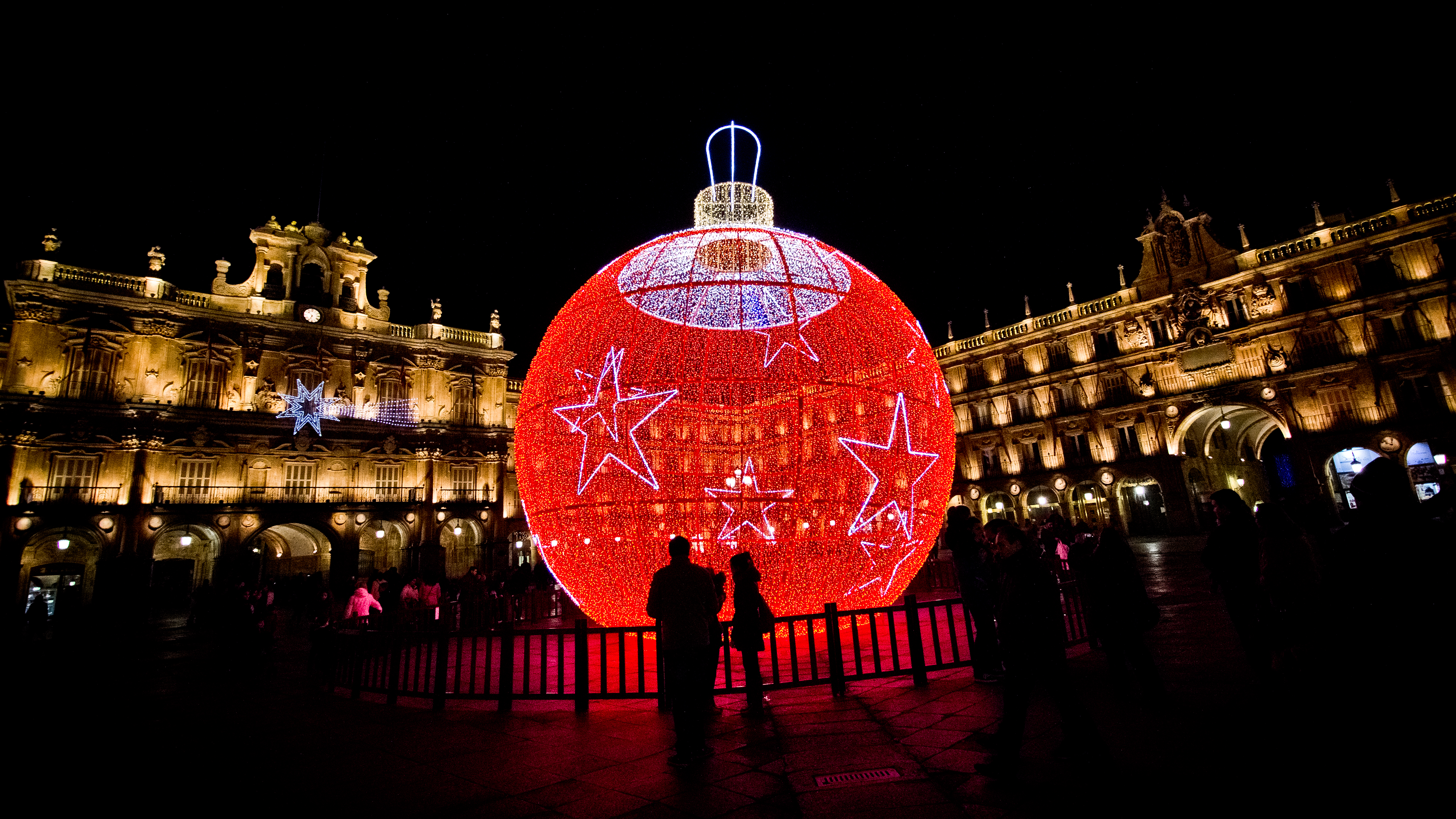 Great ornament